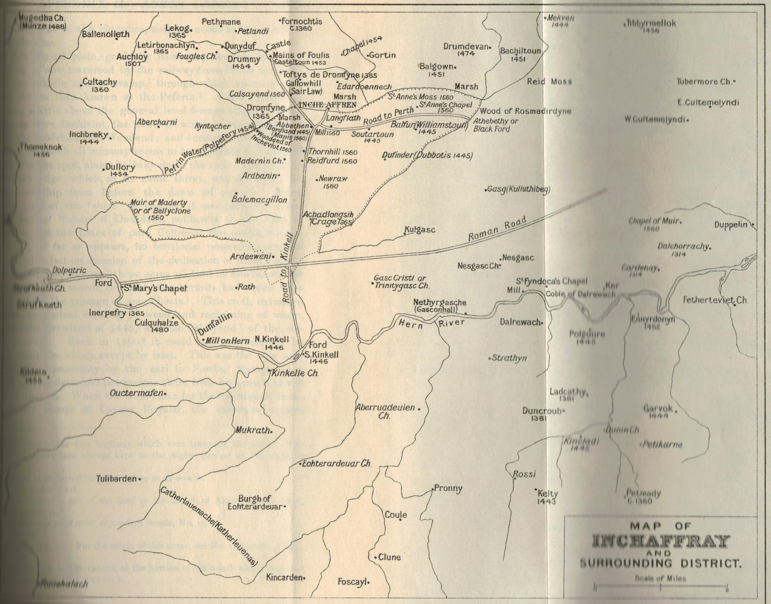 Map taken from Lindsay, William Alexander, Dowden, John & Thomson, John Maitland (eds.), Charters of Inchaffray Abbey, 1190-1609, Publications of the Scottish History Society, Volume LVI, (Edinburgh, 1908), facing p. 316.